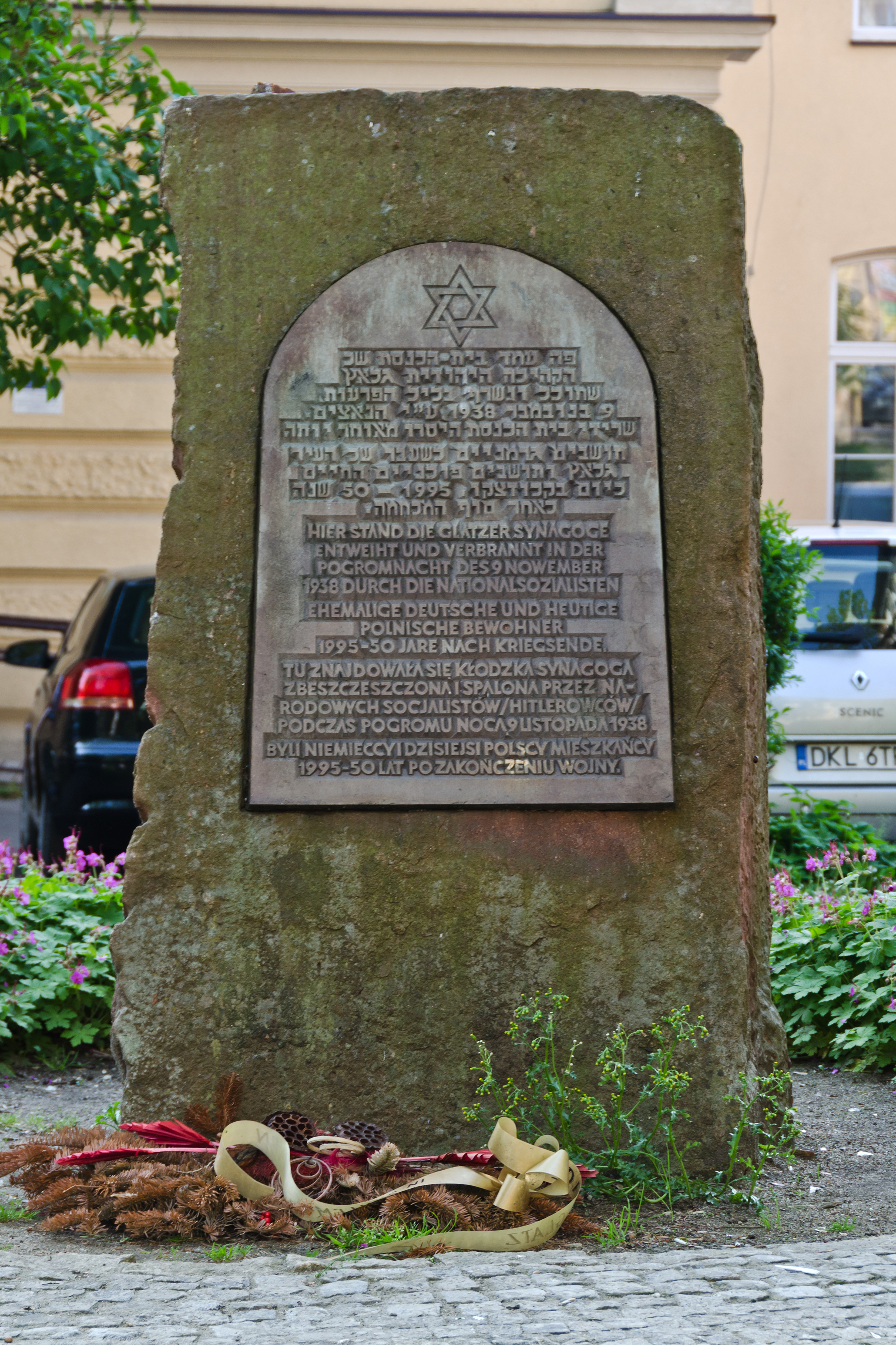 Monument in the place of the destroyed synagogue